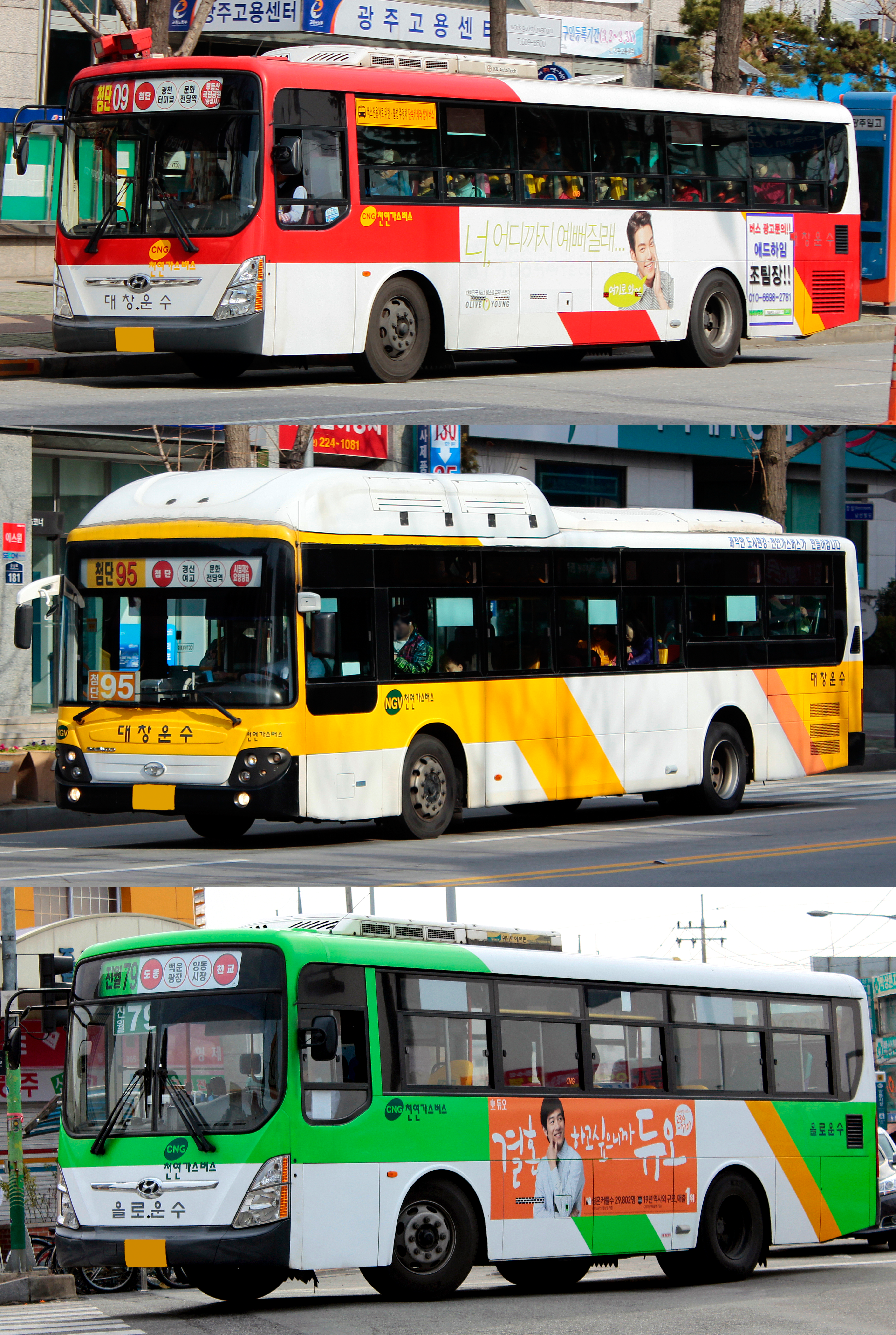 Gwangju Buses